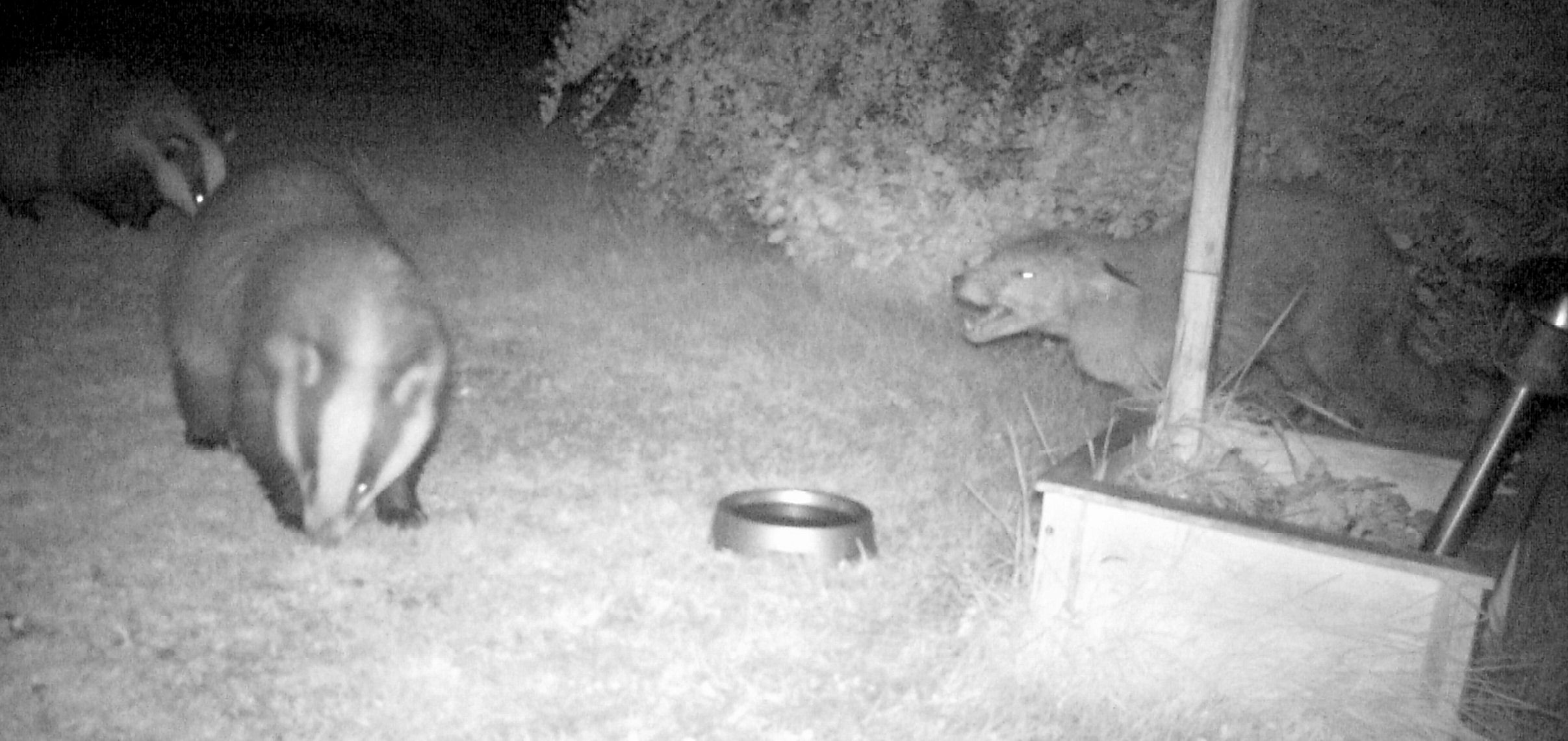 Red fox confronting European badgers, Hyde, England. The photographer reported that the fox was initially startled but relented, allowing the badgers to forage around the bird feeder (shown right) for food.